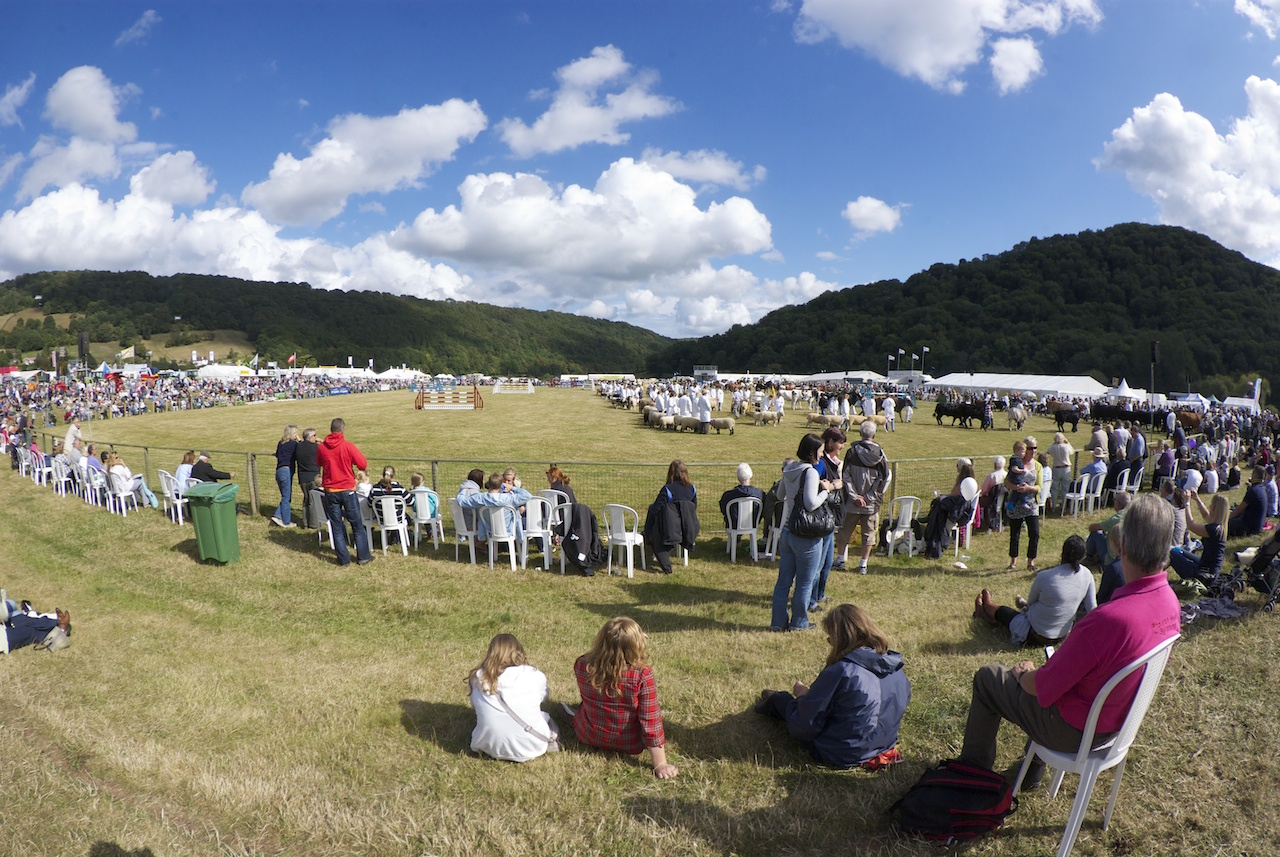 Main ring. The removal of the members marquee to the west side of the ring (right) has made available to the public the sloped northern edge from which this shot was taken.The winning livestock are being paraded out of the ring. All life is at the show and it is a bit of a bubble of feudalism in the 21st century. The toffs ride around on their horses while the peasants rifle the stands for free gifts, stuffing them into their pushchairs.